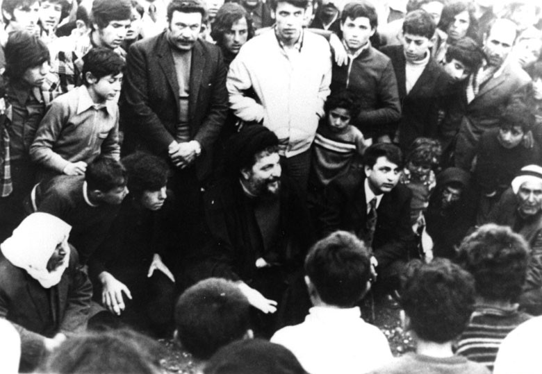 Visit of Imam Musa al-Sadr from the bombarded areas of southern Lebanon